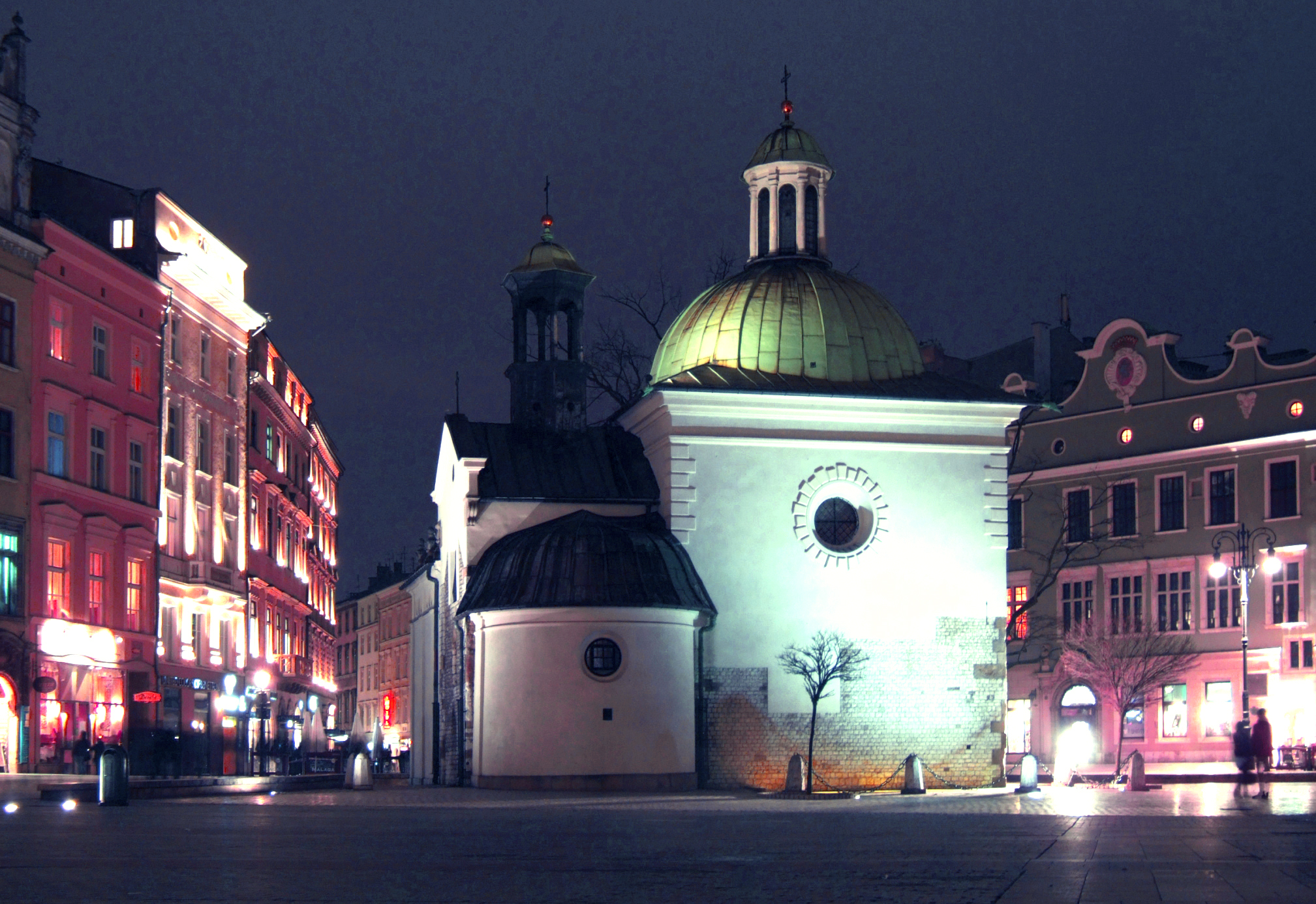 Church of Saint Adalbert in Krakow